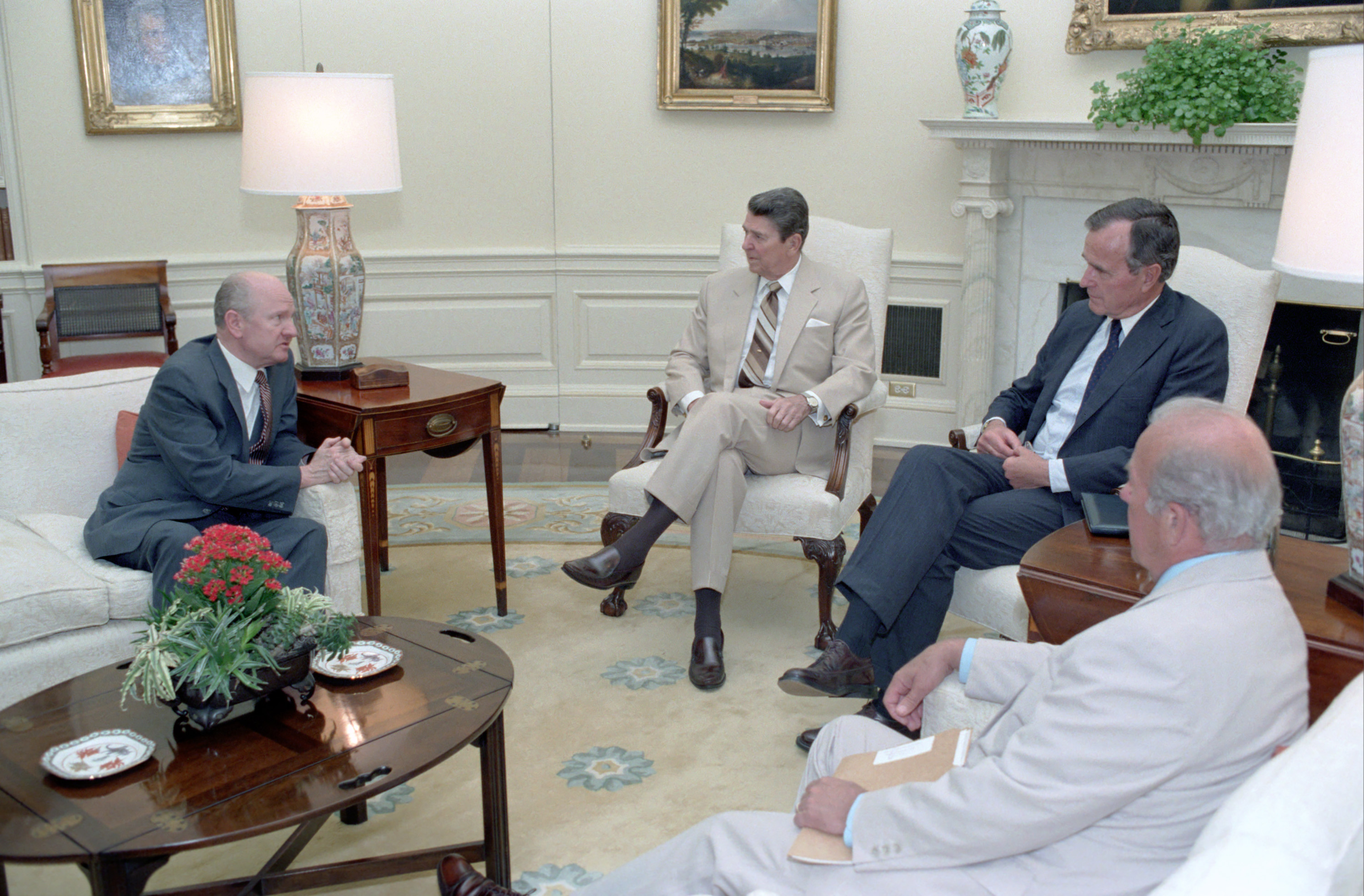 Assistant Secretary of State Gaston Sigur briefing President Reagan, Vice President Bush, and Secretary Shultz on South Korean political issues 26 June 1987